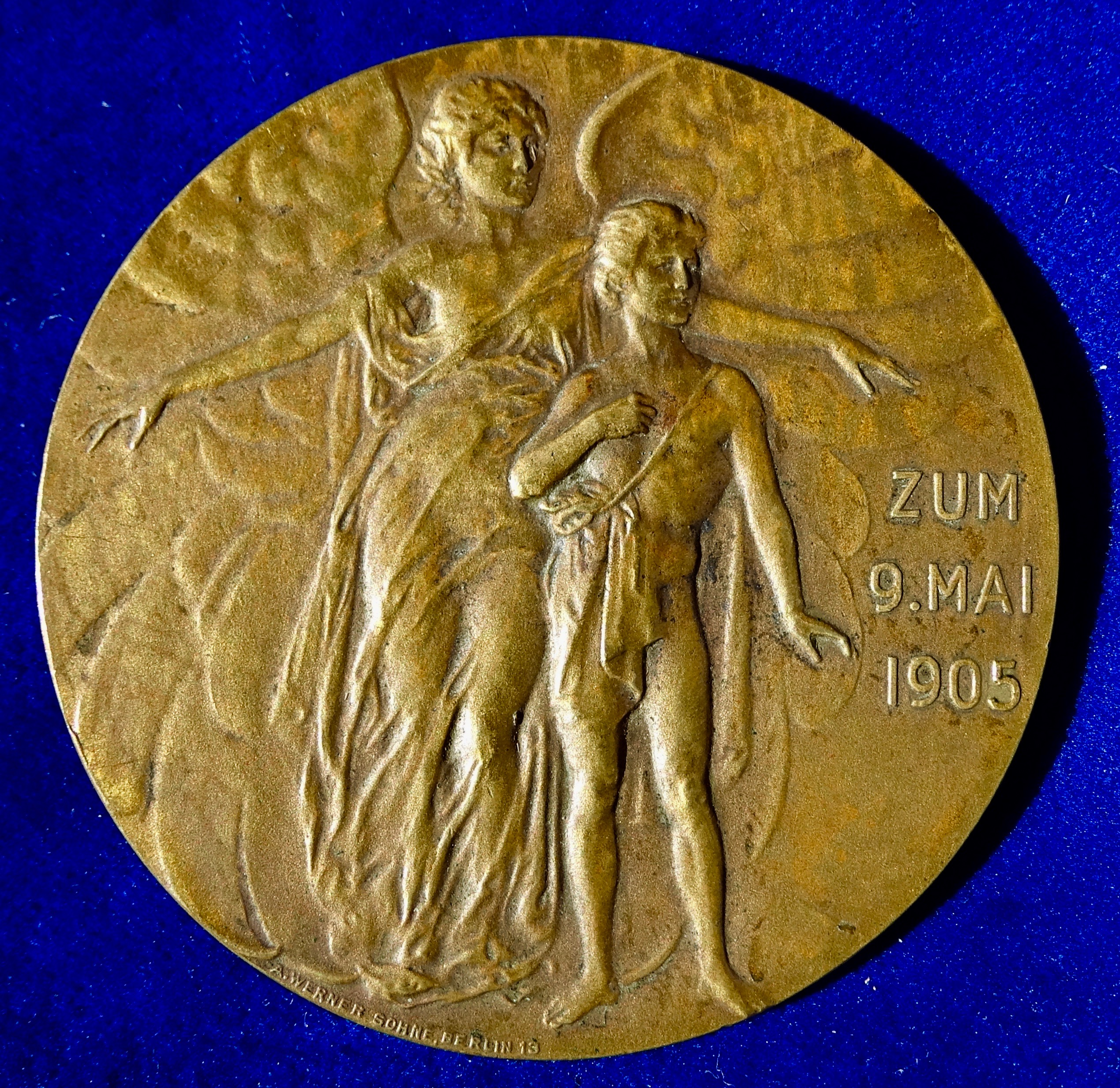 Friedrich Schiller, German Poet and Surgeon 100th Death Anniversary, Art Nouveau Medal 1905 by A.M. Wolff, Berlin after J.H. von Dannecker. Curved l. of Portrait l.: "SCHILLER."/ A winged female genius standing l. behind Schiller after Dannecker's sculpture. 3 lines at r.: "ZUM 9. MAI 1905". Gassimuseum Leipzig # 710; Brettauer # 1126. Medallists: A. (Albert) M. (Moritz) Wolff, 1854 Berlin - 1923 Lüneburg and Johann Heinrich von Dannecker, 1758 Stuttgart - 1841 Stuttgart. Editor: A. Werner Söhne, Berlin 13. Condition: EXTREMELY FINE+.